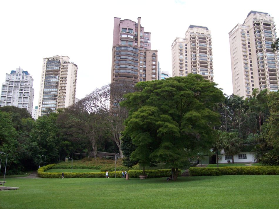 Burle Marx Park and buildings of Panamby, in South Zone of São Paulo City.